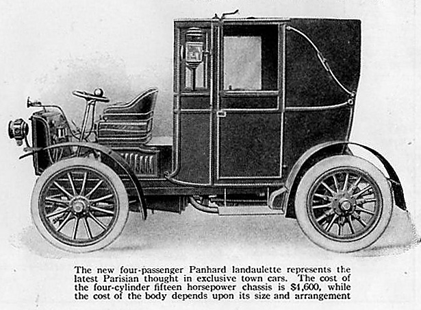 Seen in a Country Life article about autos new in 1905. Chassis type I, J, or S. 3296cc S4R engine. Interesting history of Panhard: I invite viewers to peruse the last 12 images in "My Old Car Book" set for an look at 1905 cars with informative captions as scanned from Country Life.